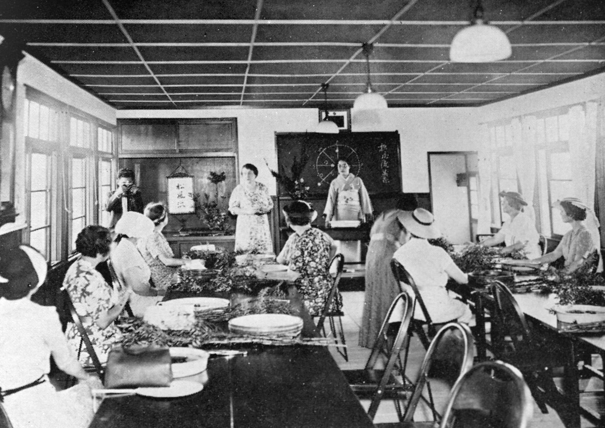 American and Canadian high school teachers visiting the Shōfuryū Flower Arrangement School. An event sponsored by (fachist) Central Federation of Nippon Culture (Nippon Bunka Chuo Renmei).